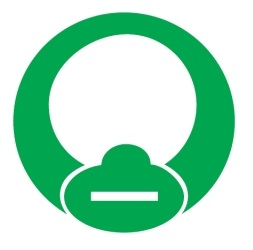 Ichinohe Iwate chapter